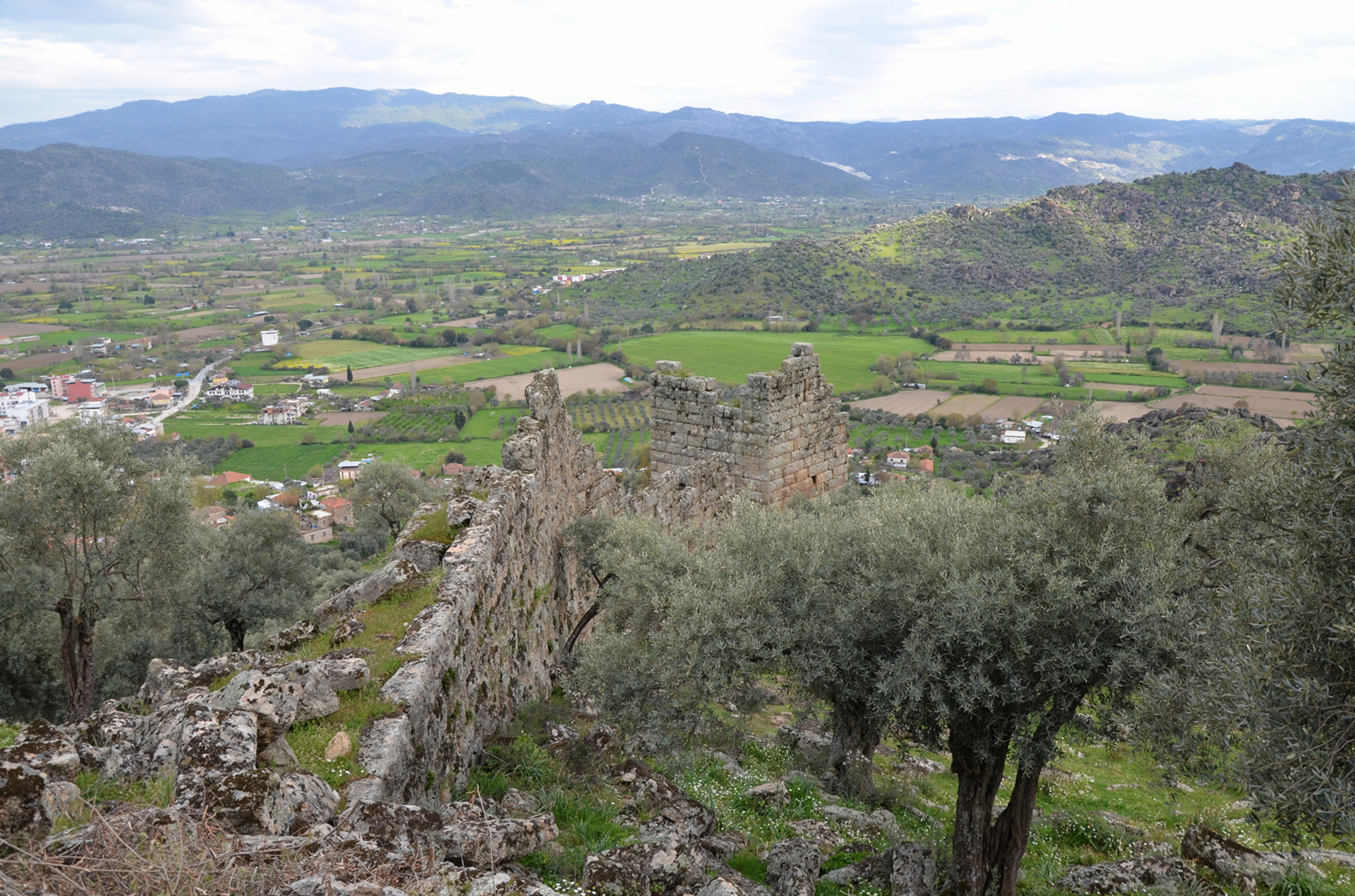 The Hellenistic city walls, Alinda, Caria, Turkey